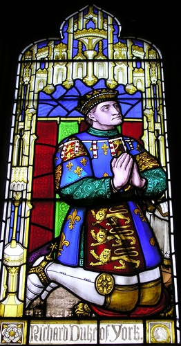 The duke of York, Richard.